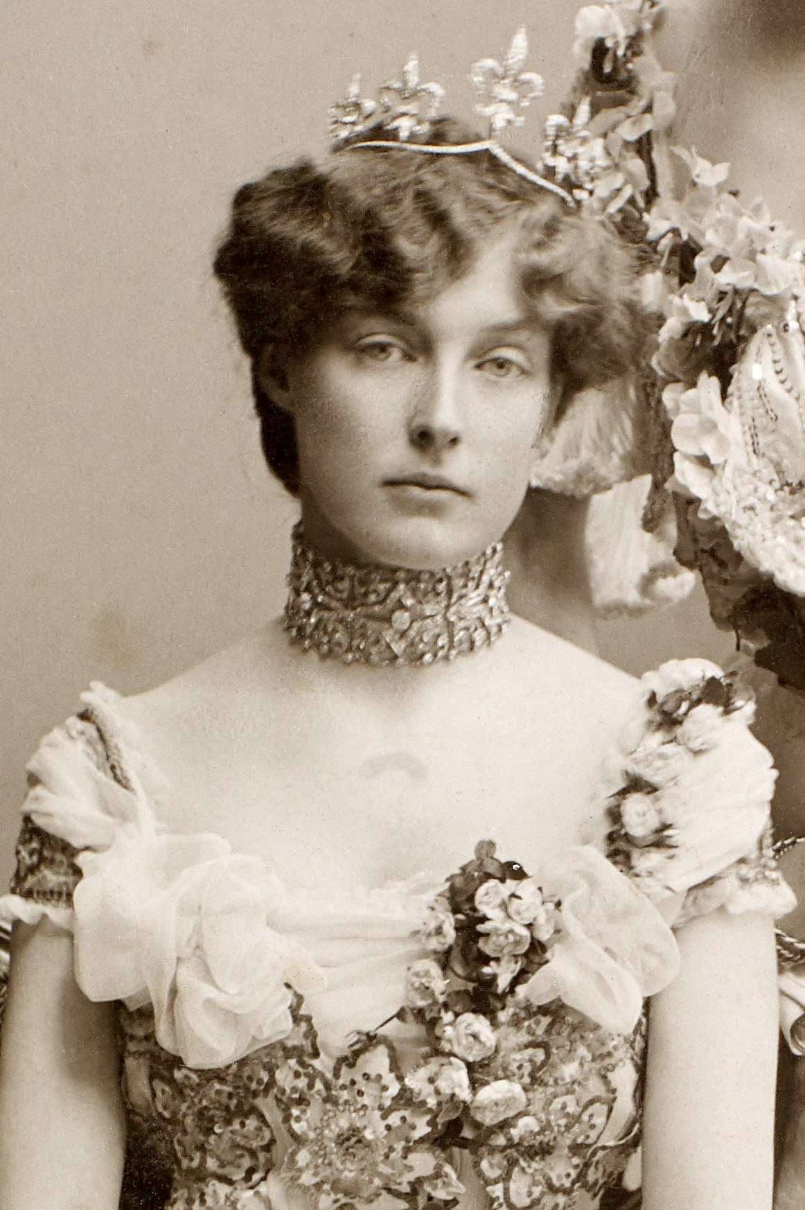 Isabella Princesa de Orleans Duchess of Guise